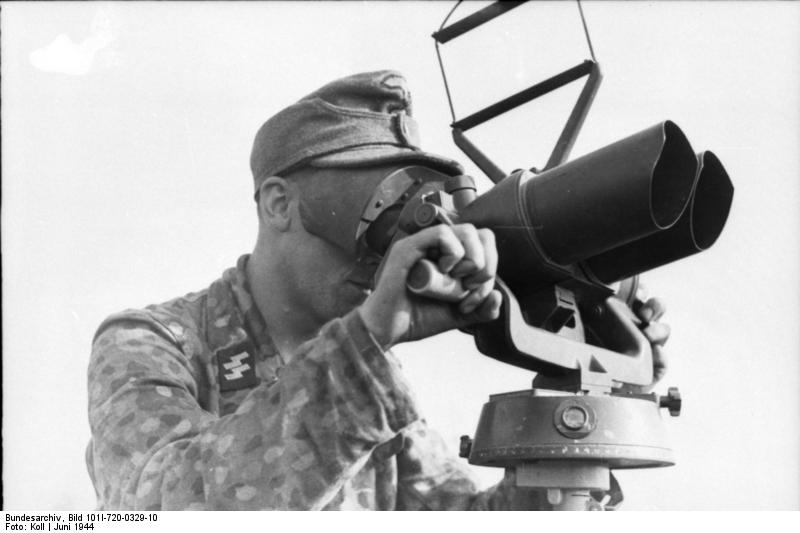 Information added by Wikimedia users.